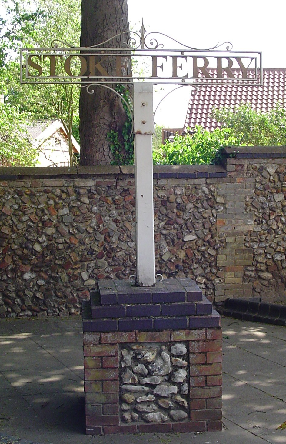 Signpost in Stoke Ferry